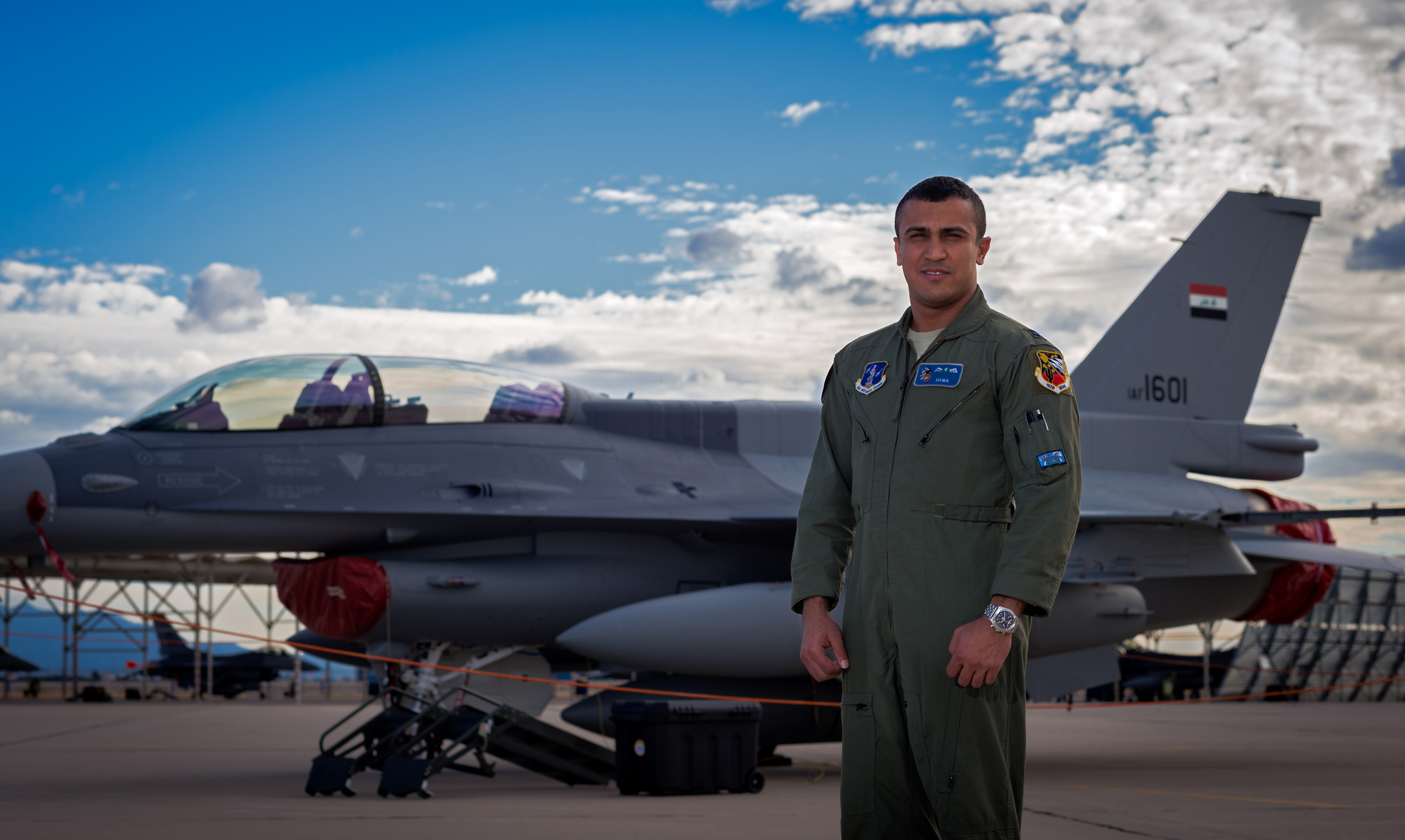 Iraqi air force captain Hama stands in front of one of the IAF F-16 Fighting Falcons Dec. 16, 2014 at Tucson International Airport, Ariz. Hama helped deliver one of the IAF's new F-16Ds to their training location. (U.S. Air Force photo/Senior Airman Jordan Castelan)